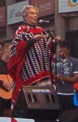 Chavela Vargas performing live in July 2006.